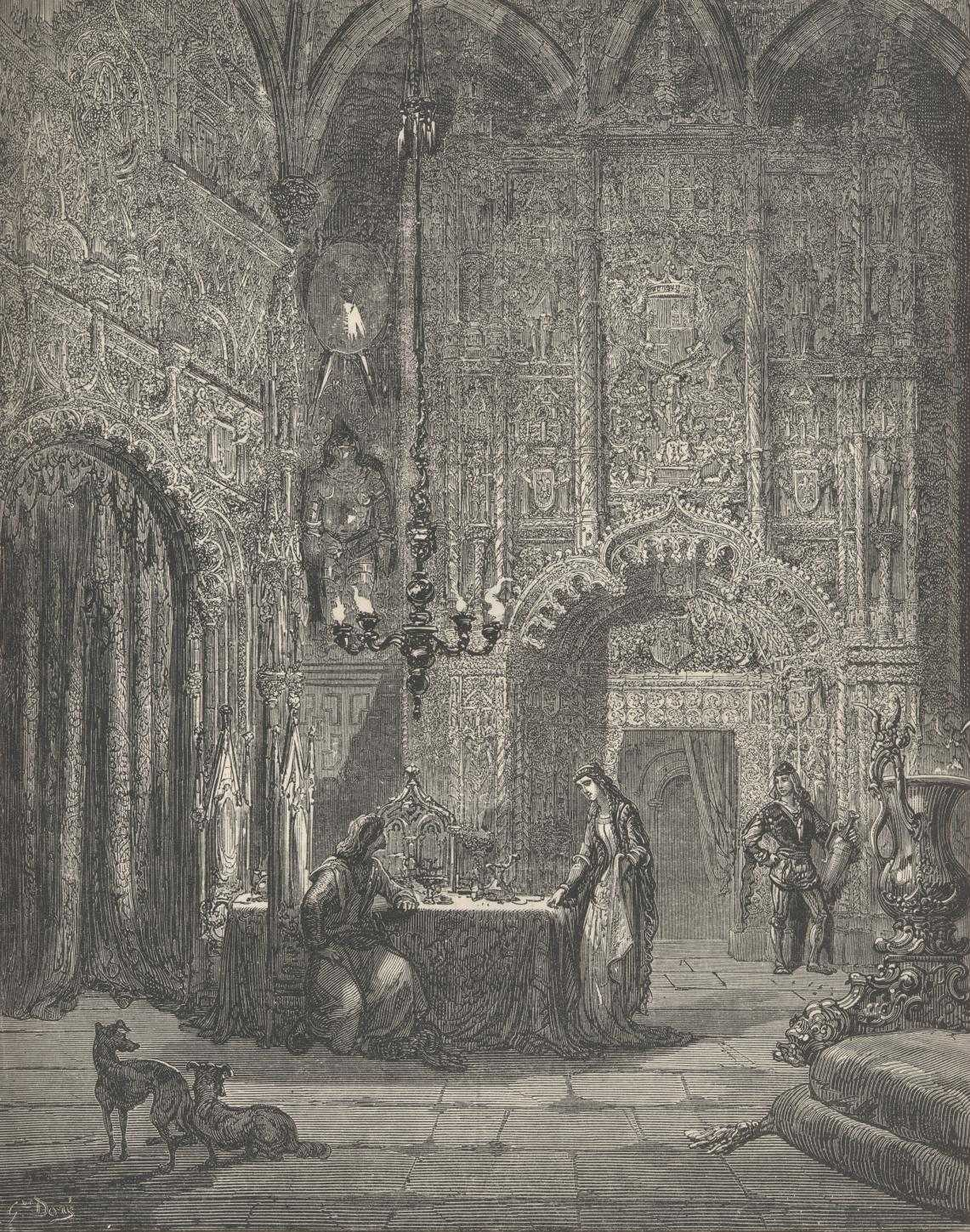 Illustration by Paul Gustave Louis Christophe Doré.